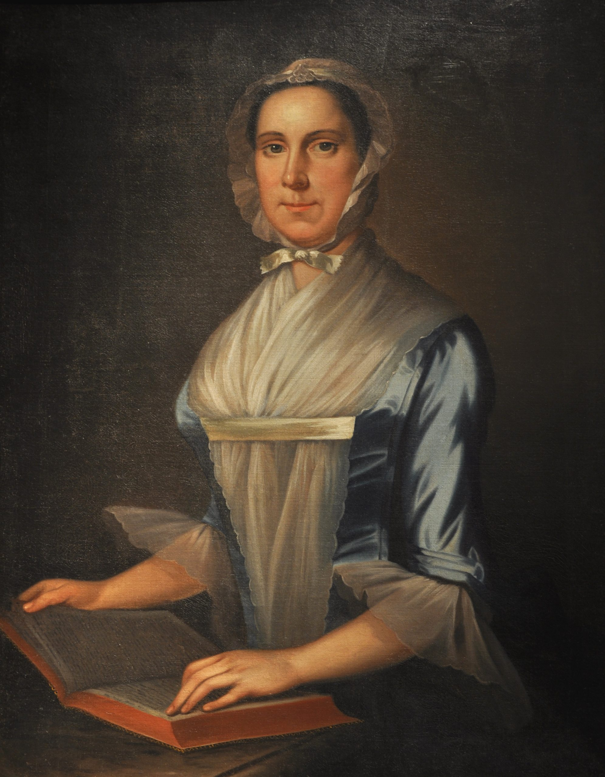 Dimensions: 35 x 27 in. (88.9 x 68.58 cm.)